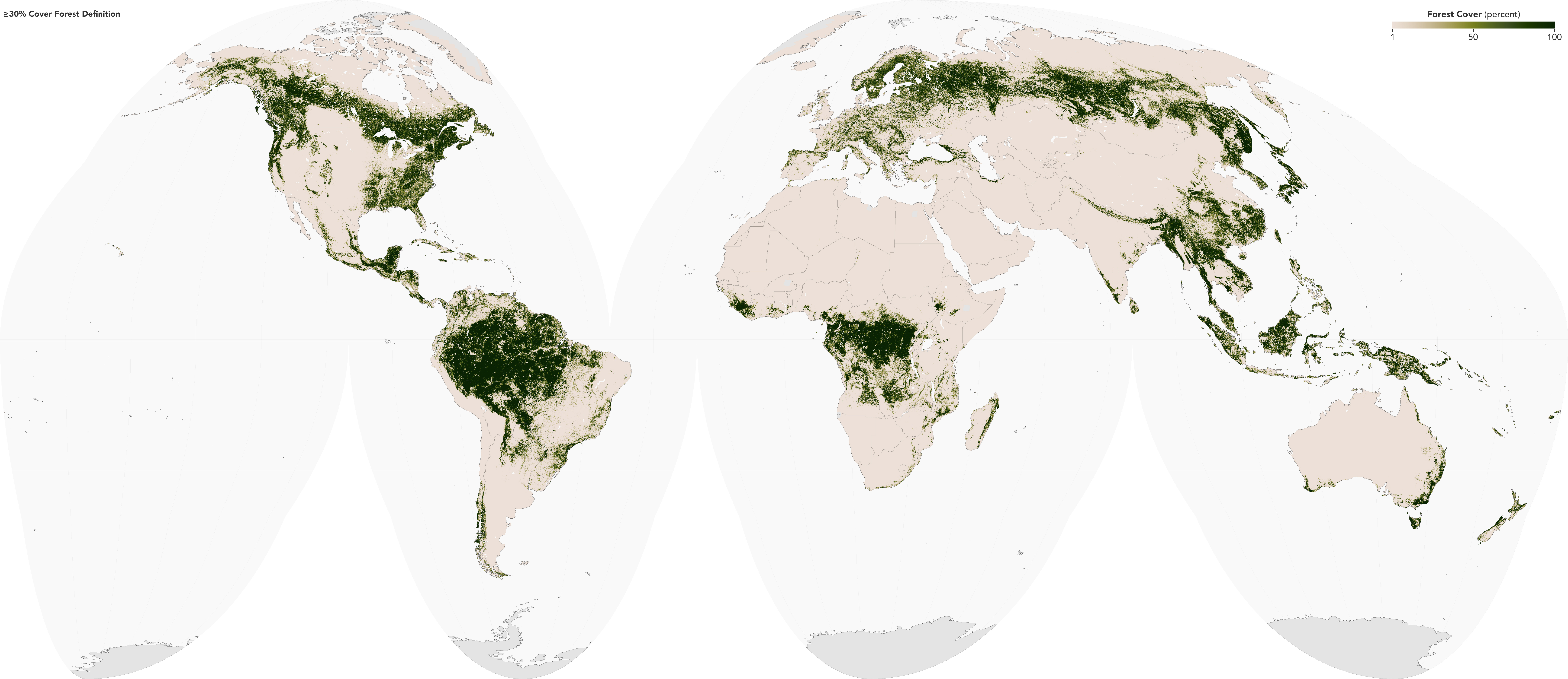 IDL TIFF file